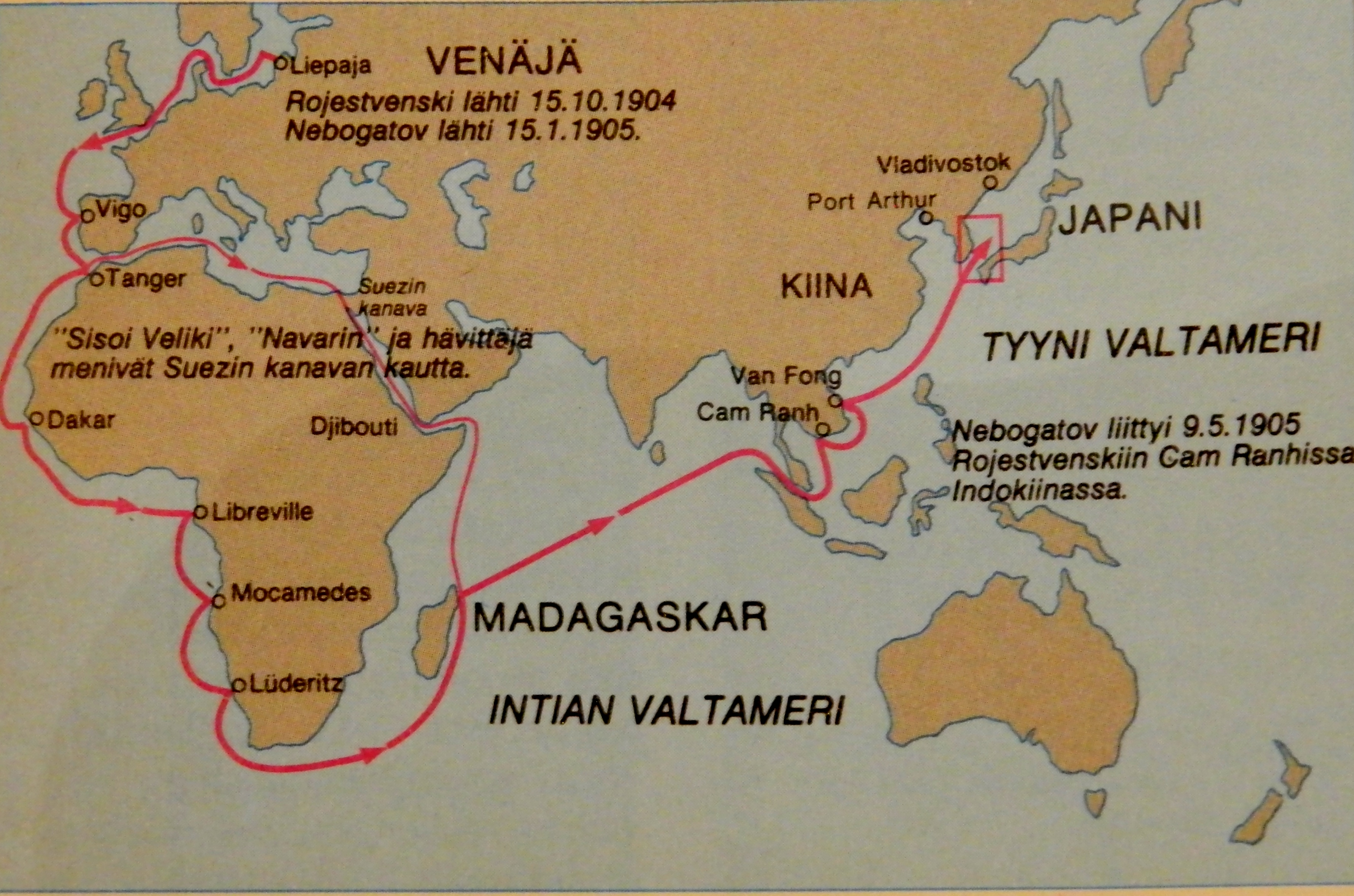 Battle of Japan Sea (Route of Baltic Fleet)